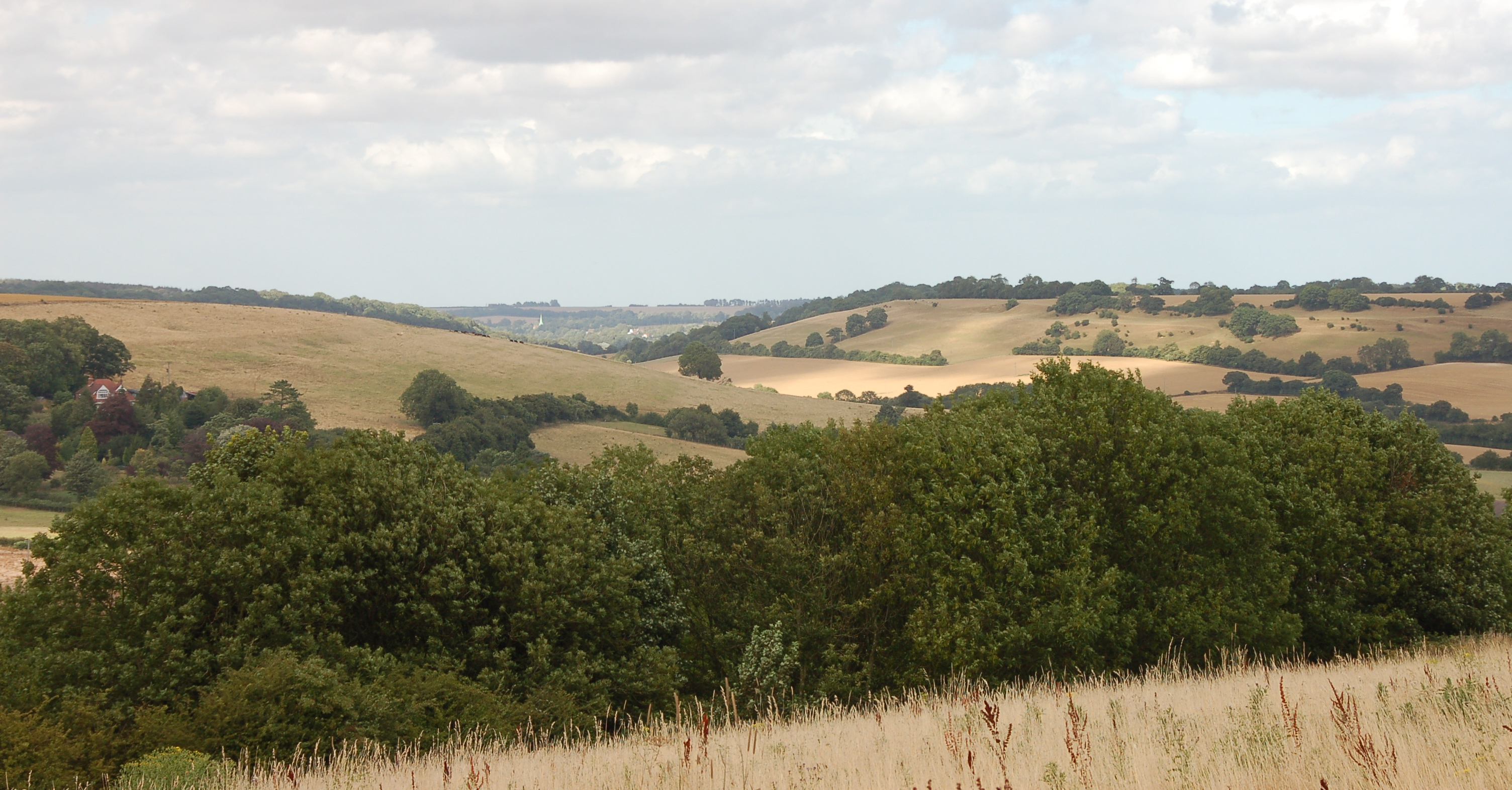 Description: Elham Valley in East Kent, England. Author: Alfred Gay Source: Self Made Date: 23rd March 2007